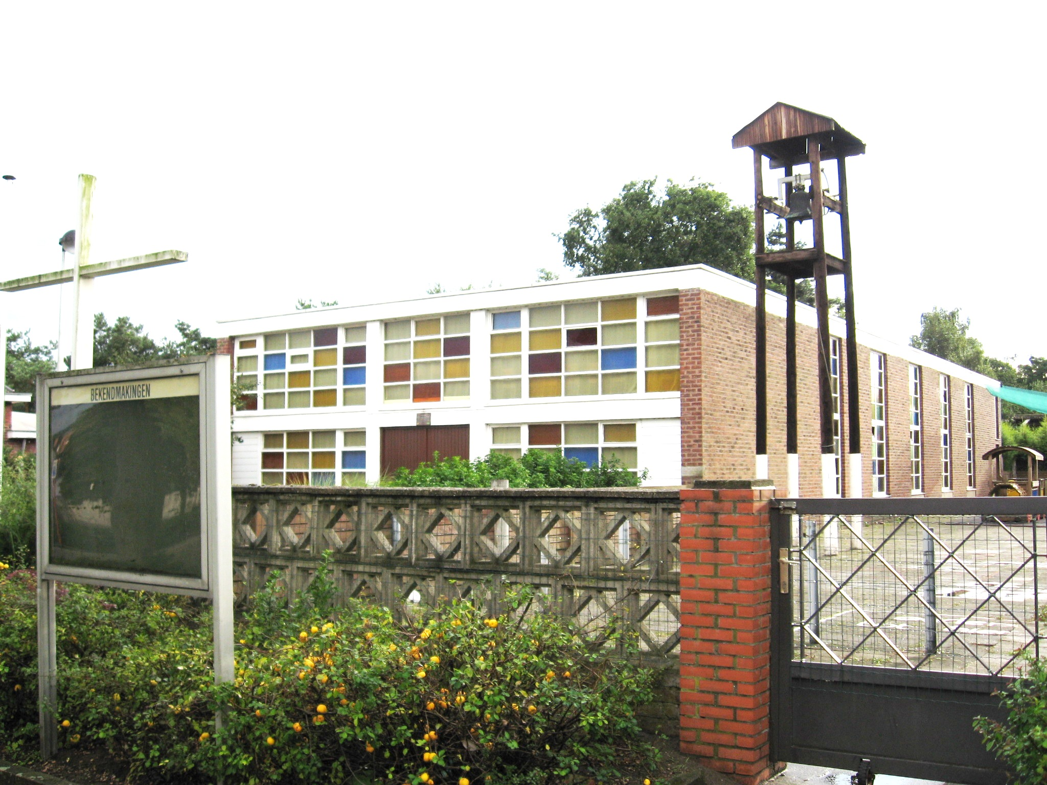 Church of Saint Barbara in Tessenderlo (Berg), Limburg, Belgium